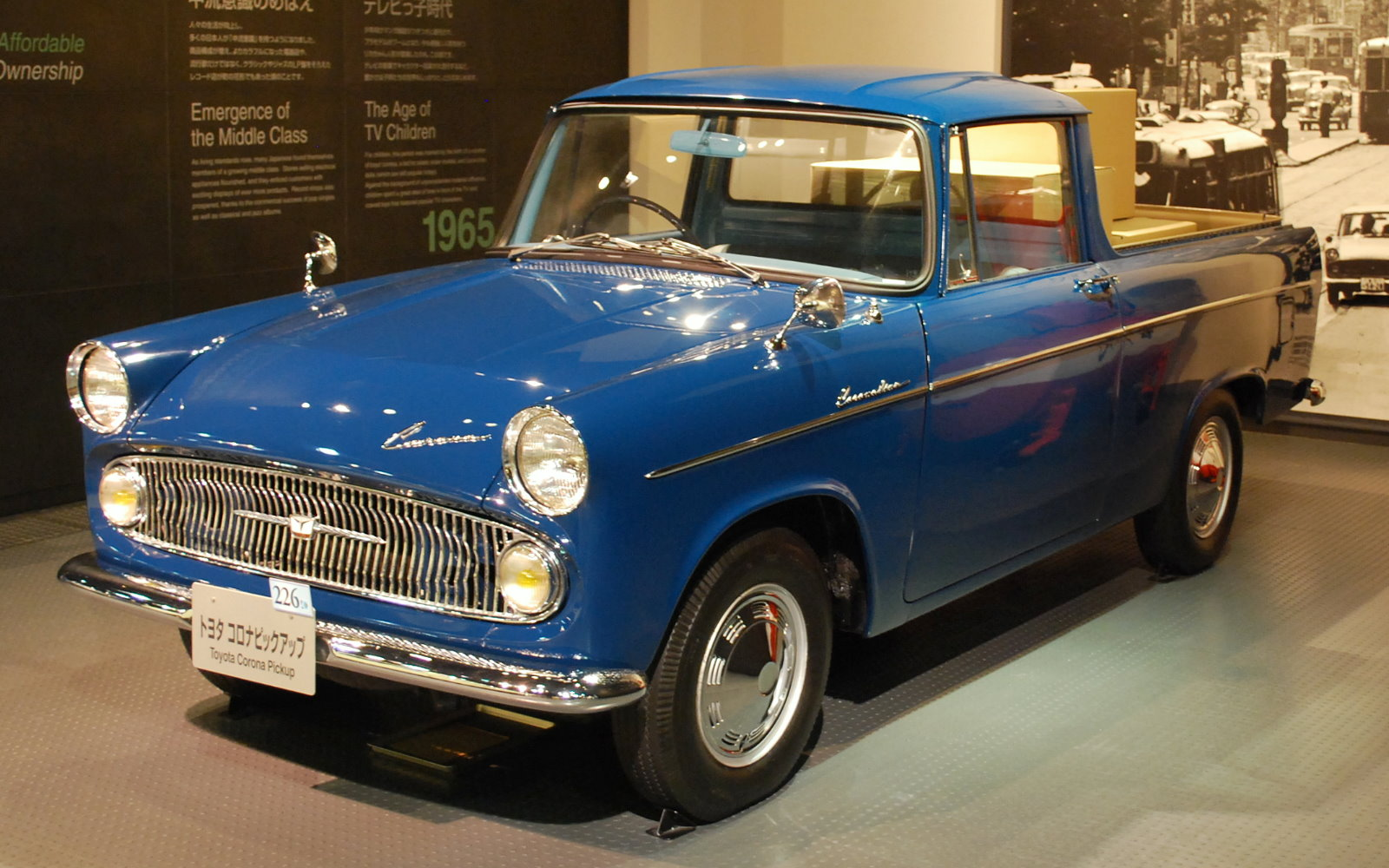 Toyopet Coronaline